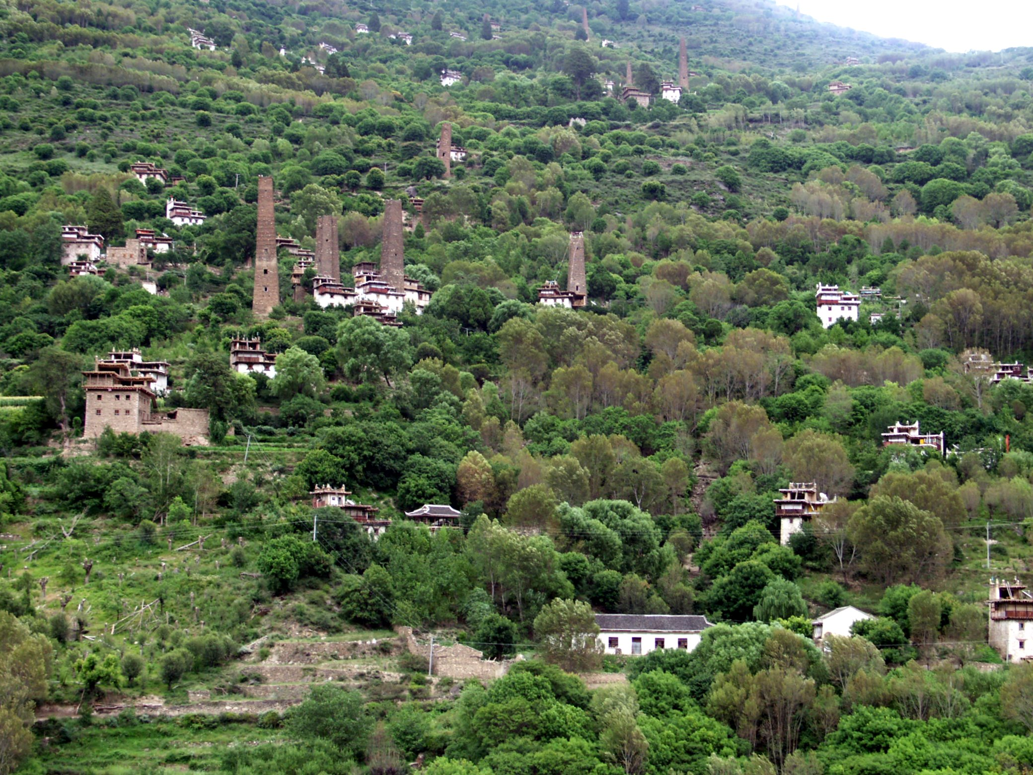 Tibetan fortress tower - Diaolou, Danba, Sichuan, China